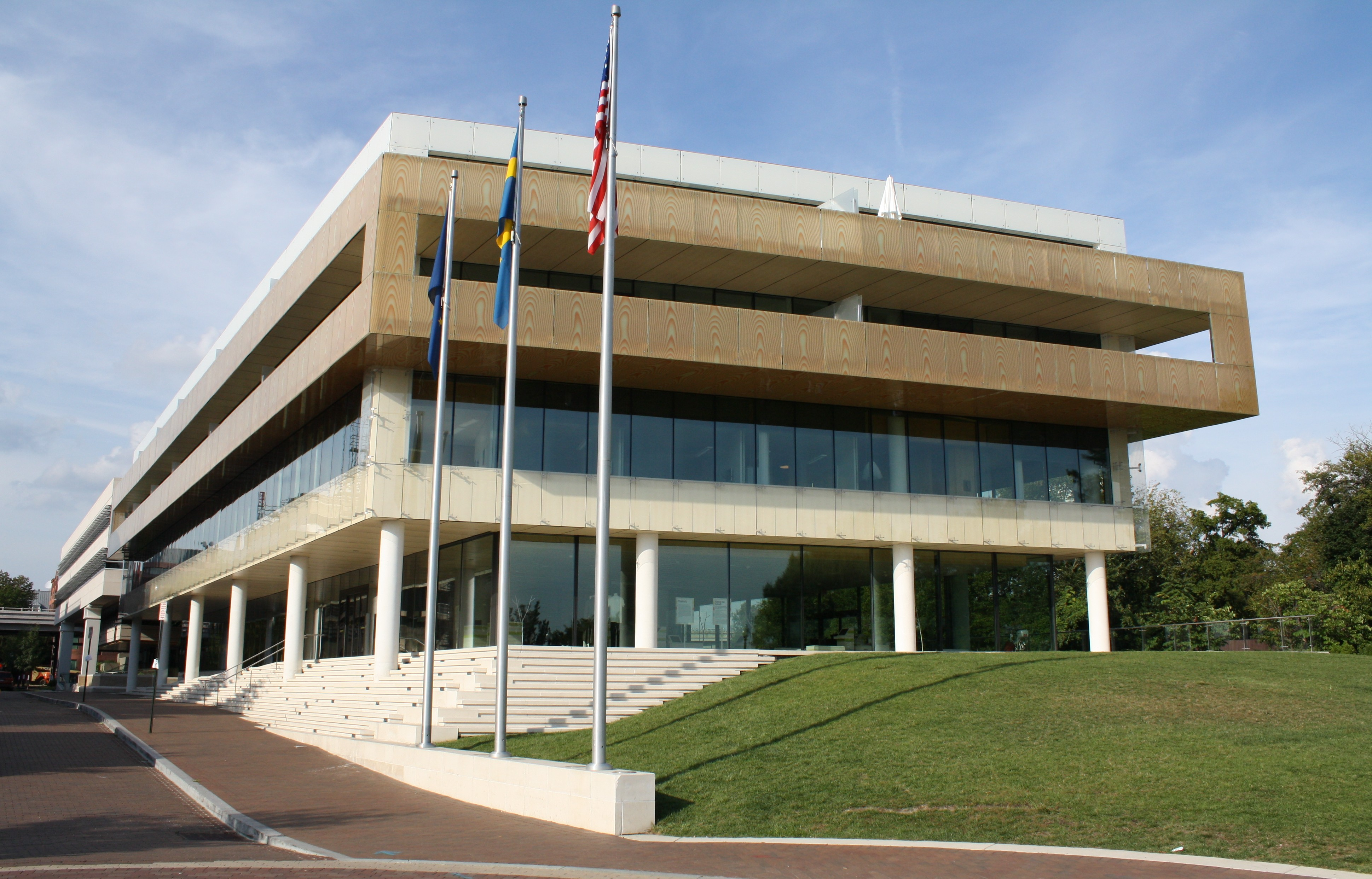 Embassy of Sweden . . Washington Harbour / Georgetown . 2900 K Street, NW Washington DC . Labor Day / Sunday, 6 September 2009 . Elvert Xavier Barnes Photography